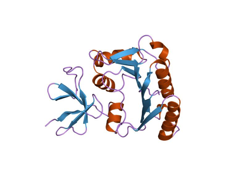 Cartoon representation of the molecular structure of protein registered with 1g8a code.